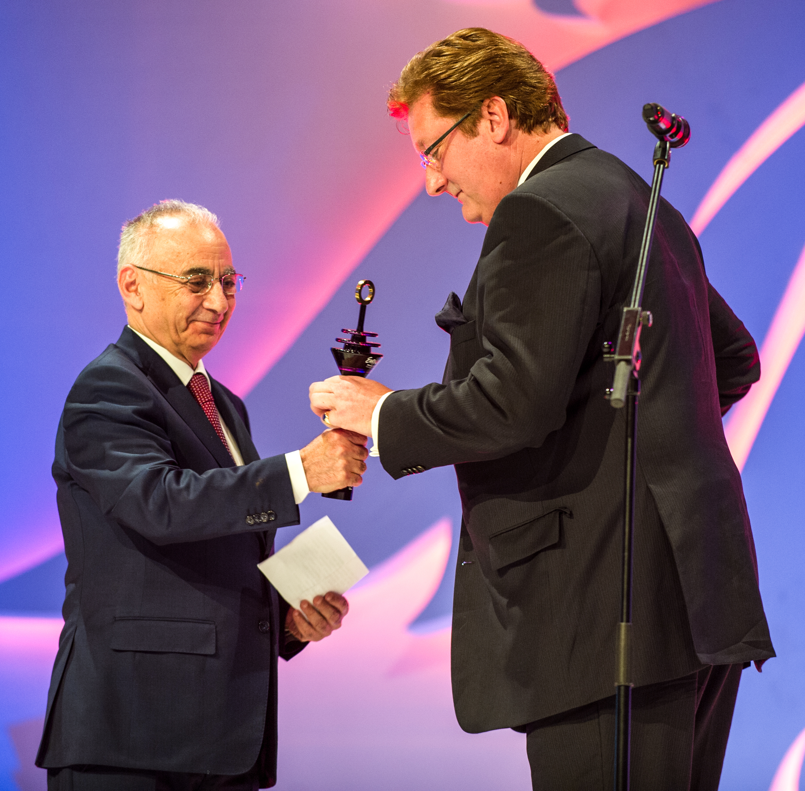 The Mayor of Dusseldorf Dirk Elbers and Mayor of Baku Hajibala Abutalibov.